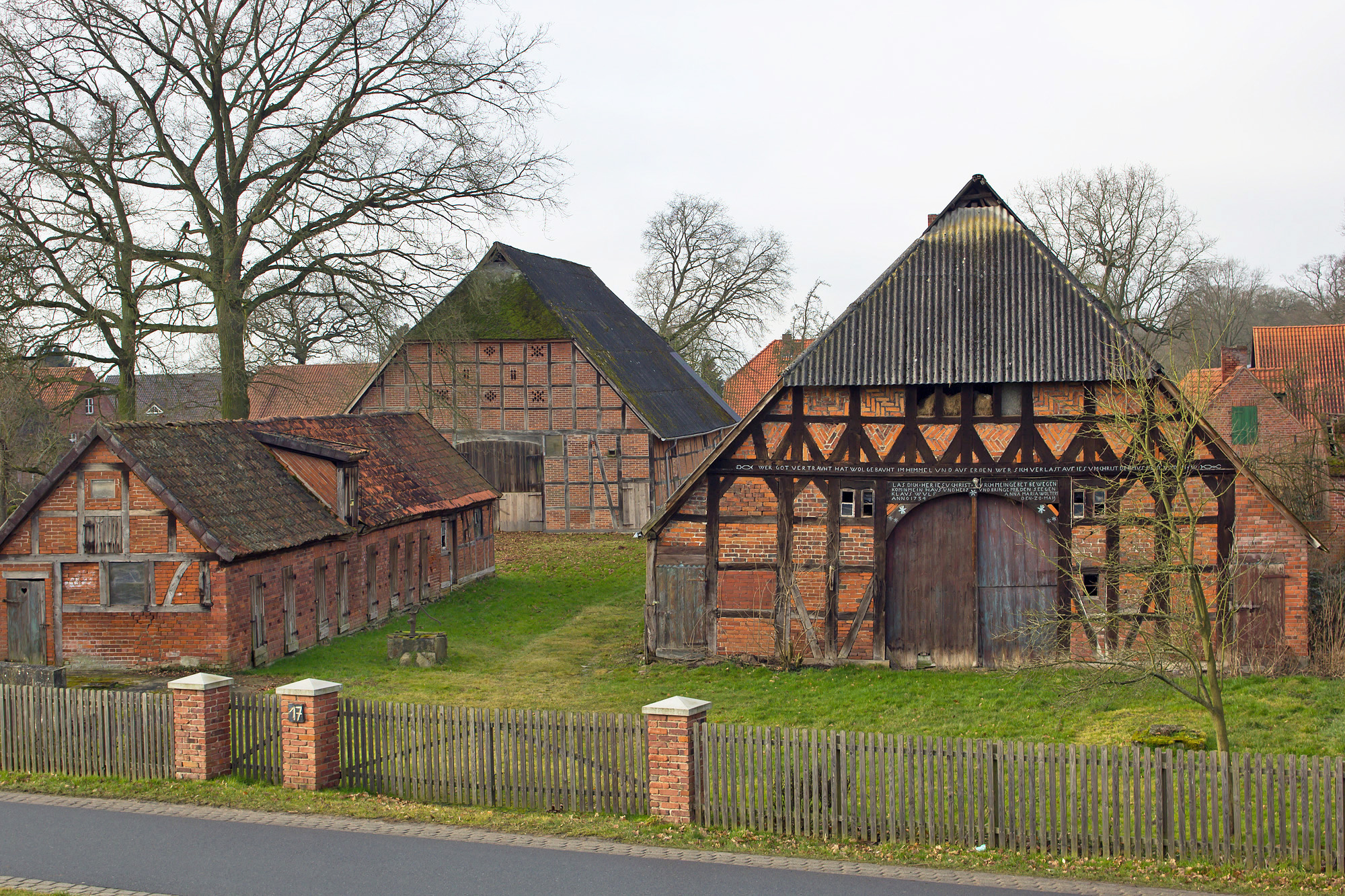 Cultural heritage monument "Am Elbdeich 17" (former No 5) in the village Damnatz (district Lüchow-Dannenberg, northern Germany); built in 1734.